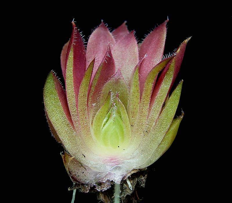 Sempervivum plant cross section